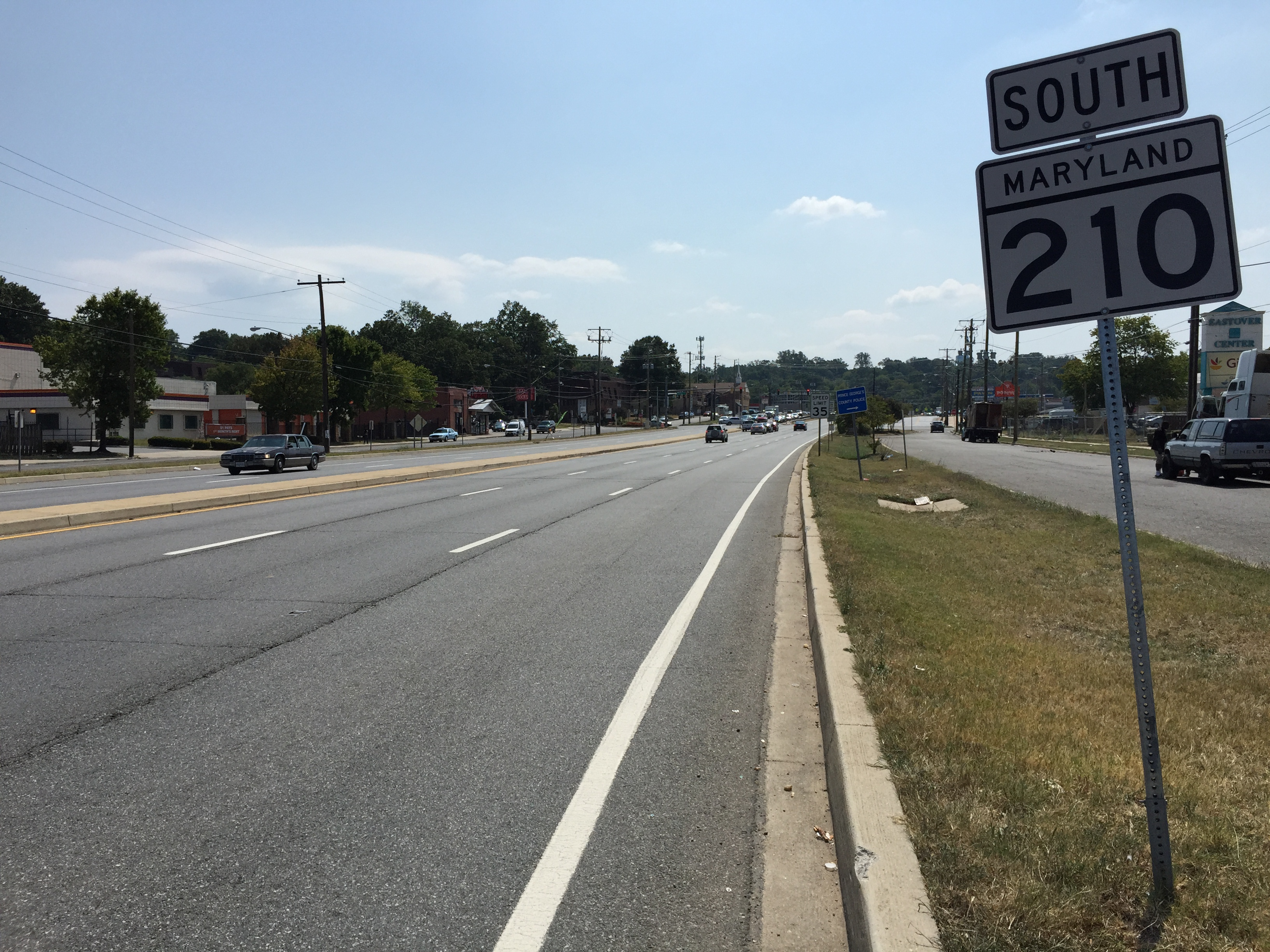 View south along Maryland State Route 210 (Indian Head Highway) at Oxon Run Drive in Glassmanor, Prince Georges County, Maryland